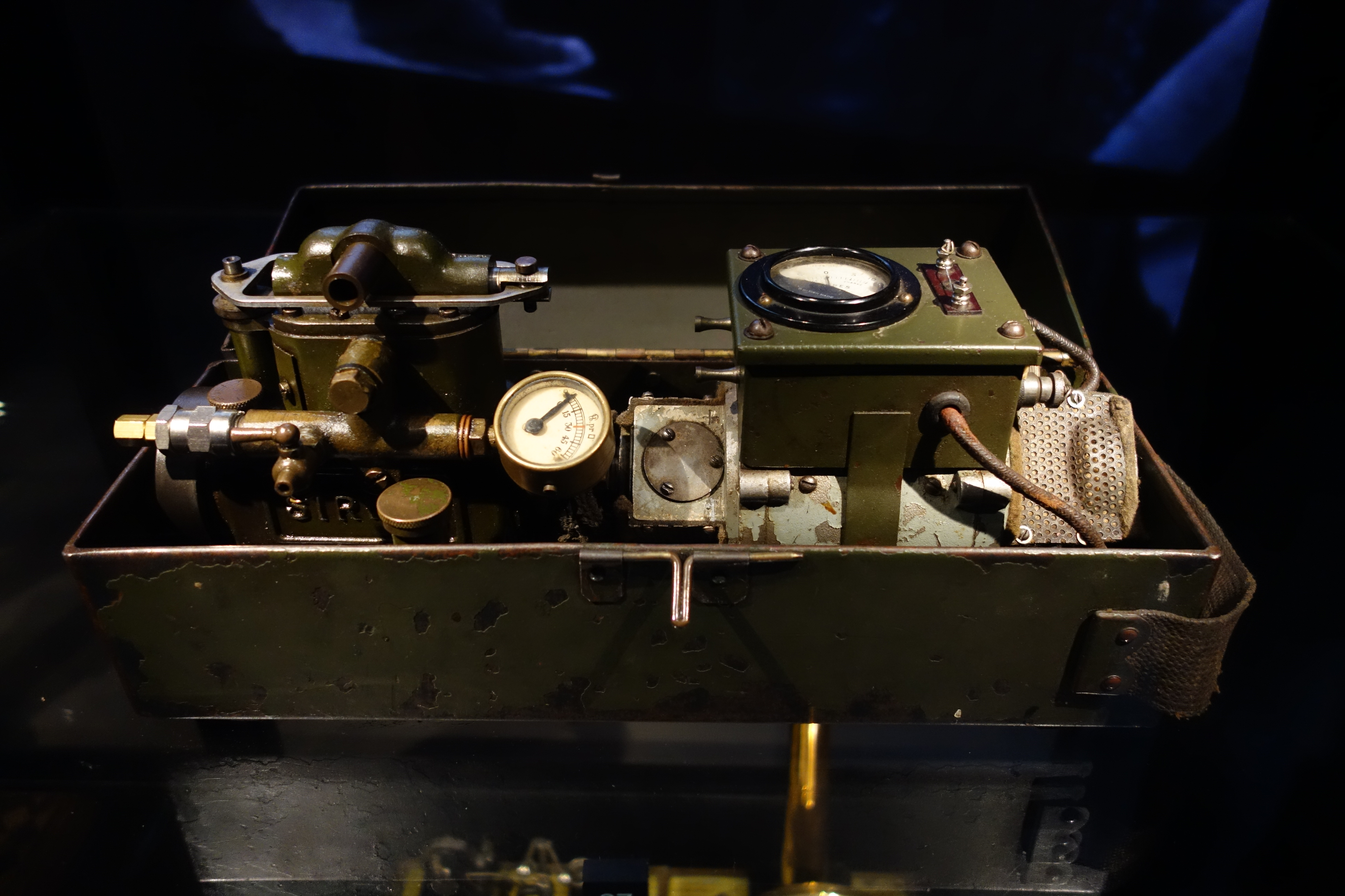 A Steam Charger from World War 2. The steam engine was made to create electricity for field telephones. This charger is still in its original case, in which it was dropped during the war. The steam engine powerd a dynamo, which created between 6 and 8 volts. This one is part of the collection of the Steam Engine Museum in Medemblik.